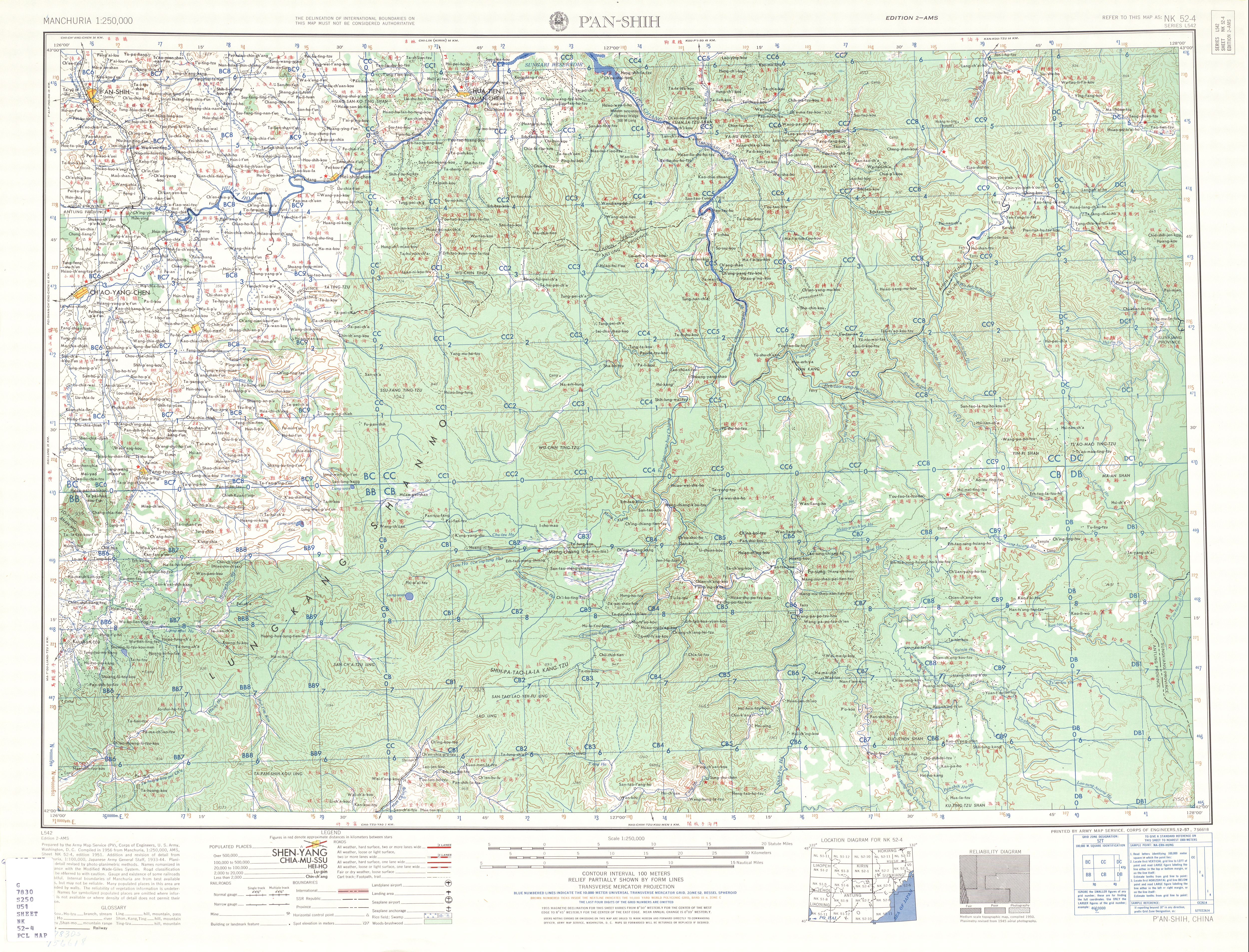 Manchuria AMS Topographic Maps